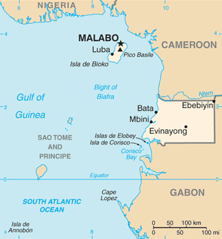 Map of Equatorial Guinea